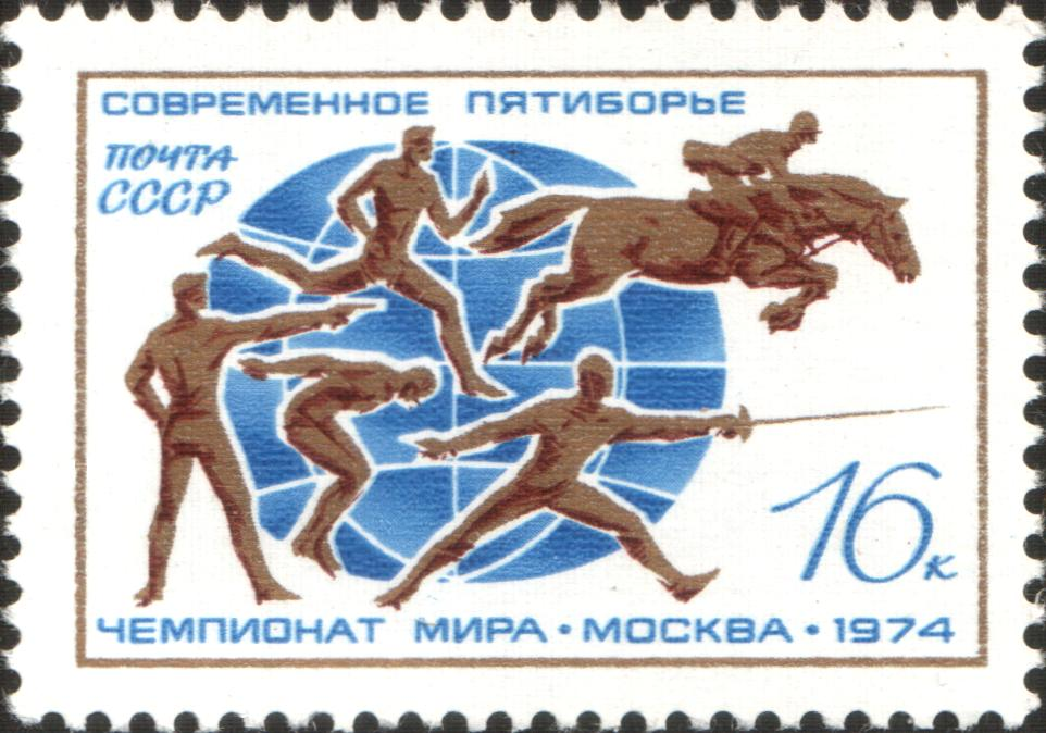 USSR stamp